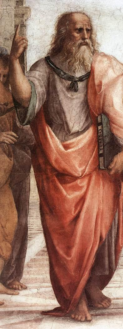 Detail of The School of Athens by Raffaello Sanzio, 1509, showing Plato